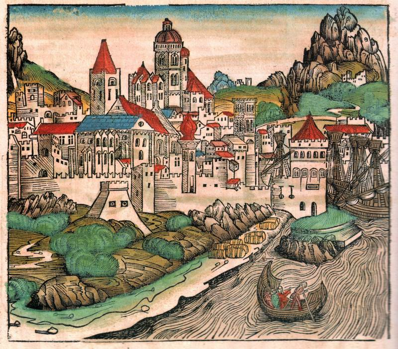 Woodcut of Mainz from the Nuremberg Chronicle